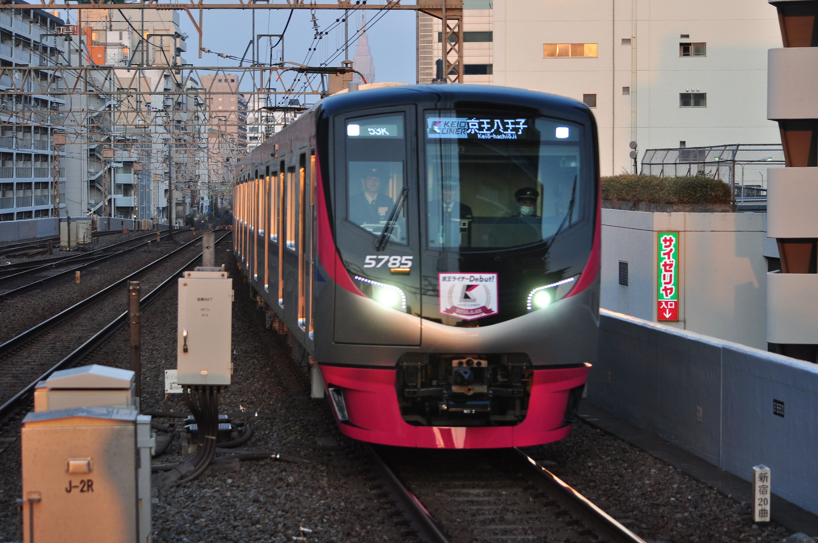 Keio 5000 series EMU set 5735 approaching Sasazuka Station on the Keio Liner 1 service